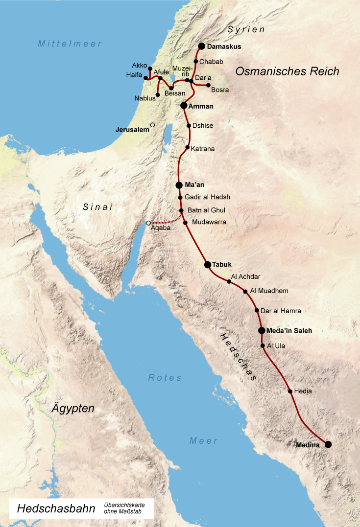 Overview Map of the Hejaz (Damascus-Mecca) railway of the late Ottoman period